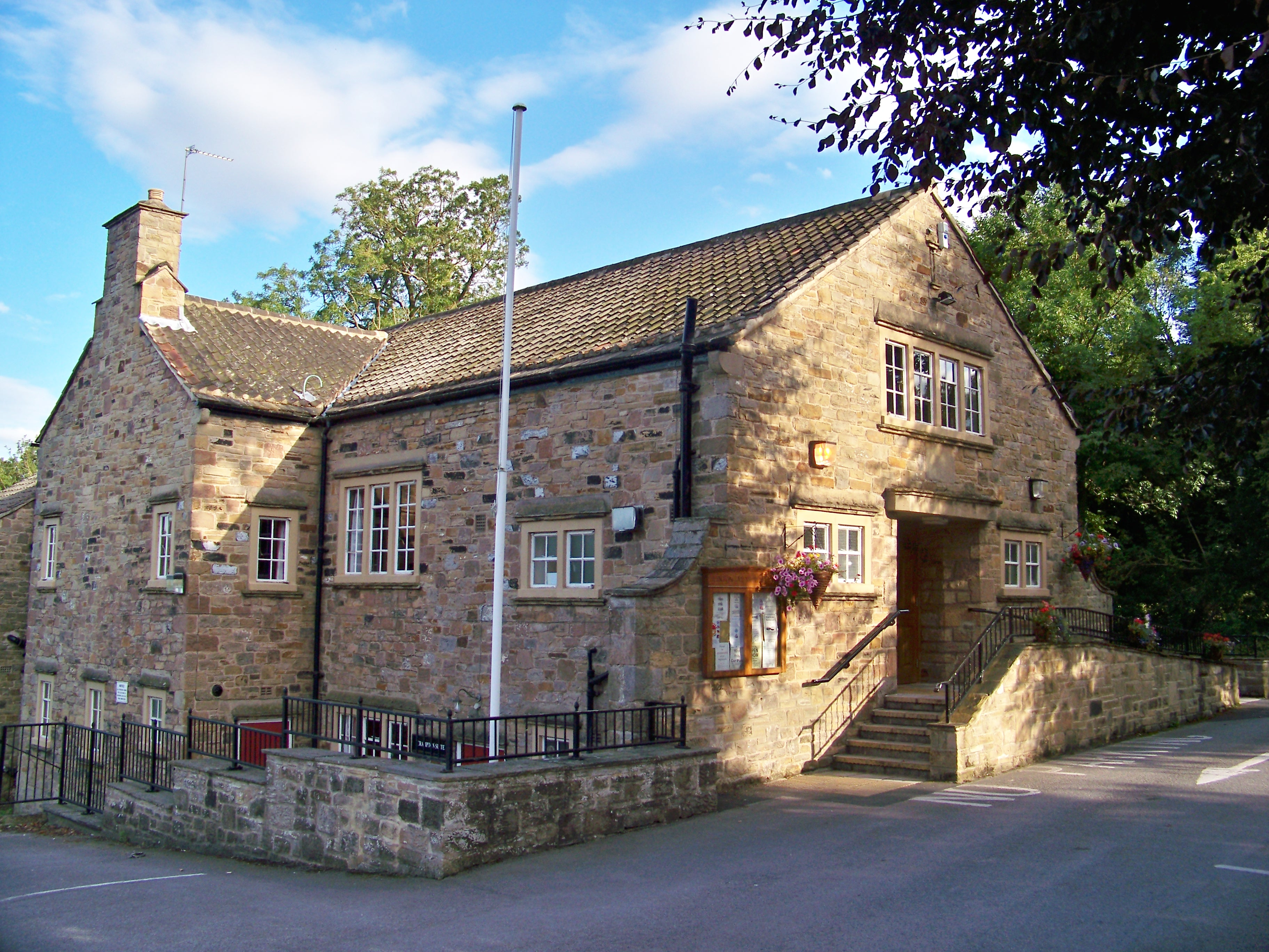 Linton village hall, Linton, Leeds, West Yorkshire, UK. Taken on the evening of Monday 3rd August 2009.